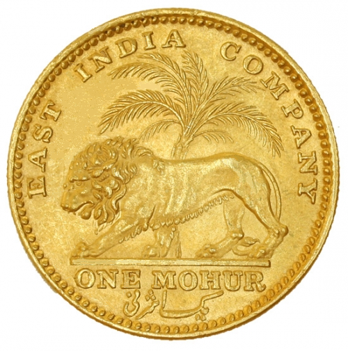 One Mohur, gold coin of the Honourable East India Company, dated on obverse 1840